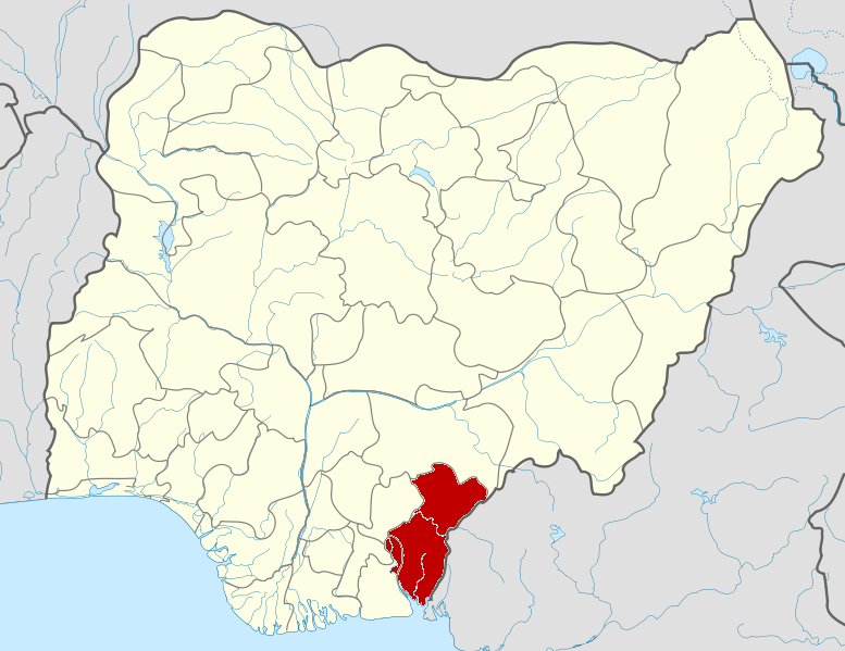 Map locator of Nigeria.